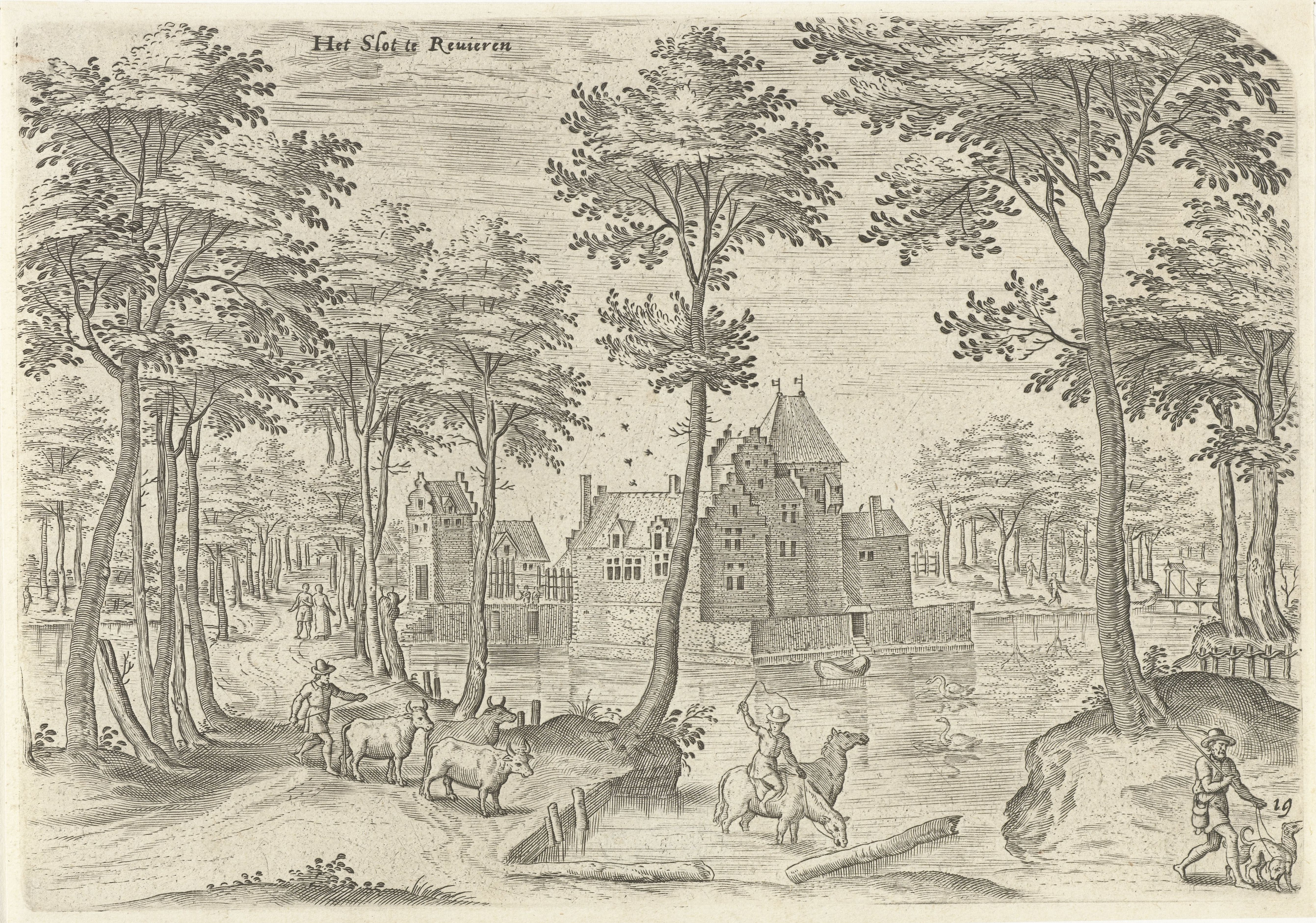 Etching by Hans Collaert (I) after Hans Bol-Jacob Grimmer, from a series of 24 views of Brussels and surroundings, published by Claes Jansz. Visscher (II) in the 16th century.